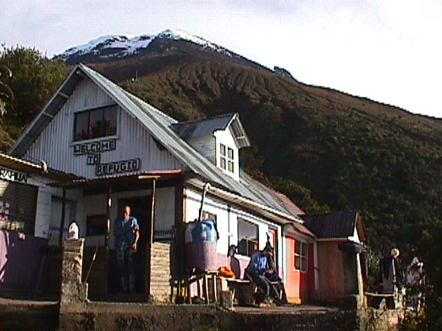 The Tungurahua Refugio Nicolas Martinez (3,800 m) with a view of the Tungurahua Summit in the Background